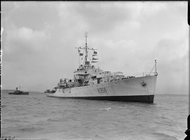 Photograph of British frigate HMS Odzani.